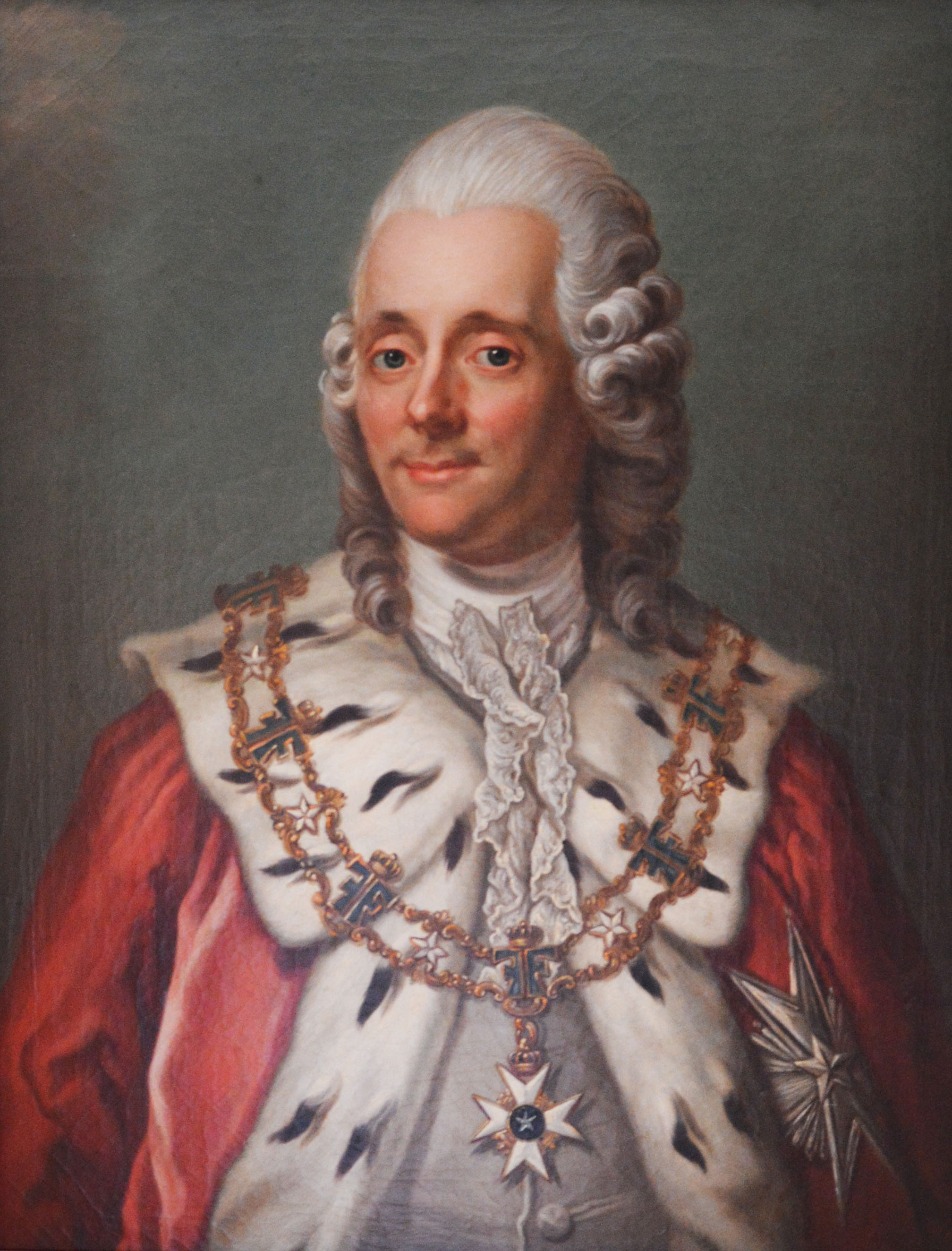 Melker Falkenberg (1722–1795), swedish count and "riksråd". Oil painting at Lund University Main Building, Lund, Sweden. Photo by the uploader.